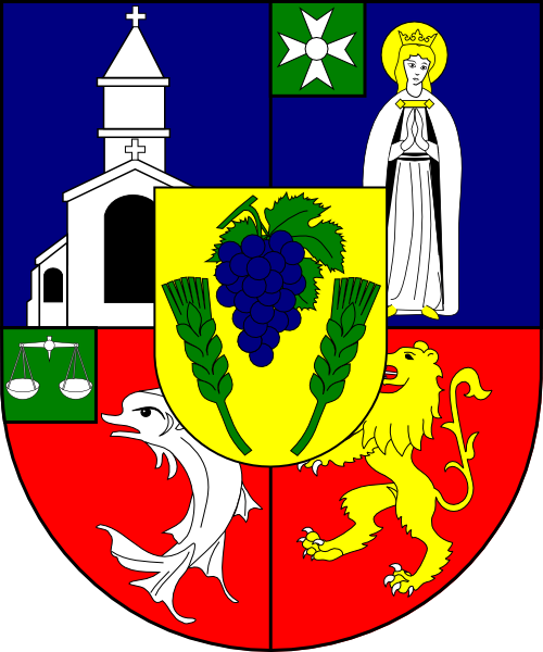 Coat of arms (shield only) of Pierre cardinal Gerlier, bishop of Tarbes et Lourdes (1929 - 1937), archbishop of Lyon (1937 - 1965).